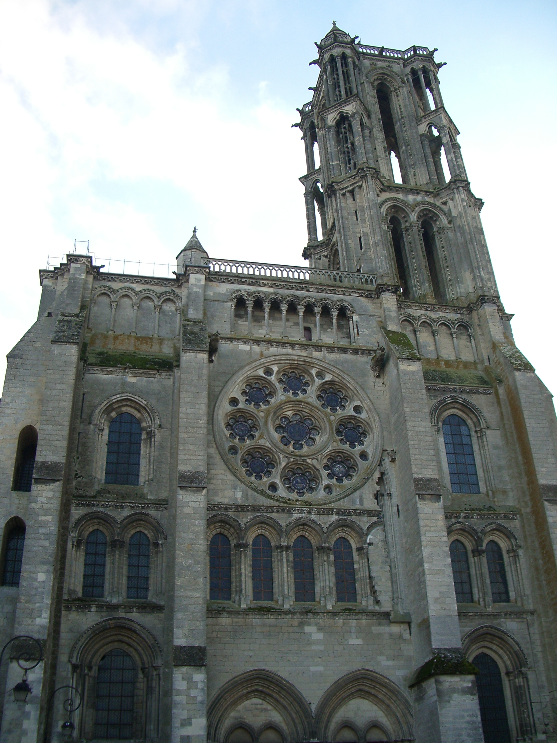 Laon's cathedral, Aisne, France